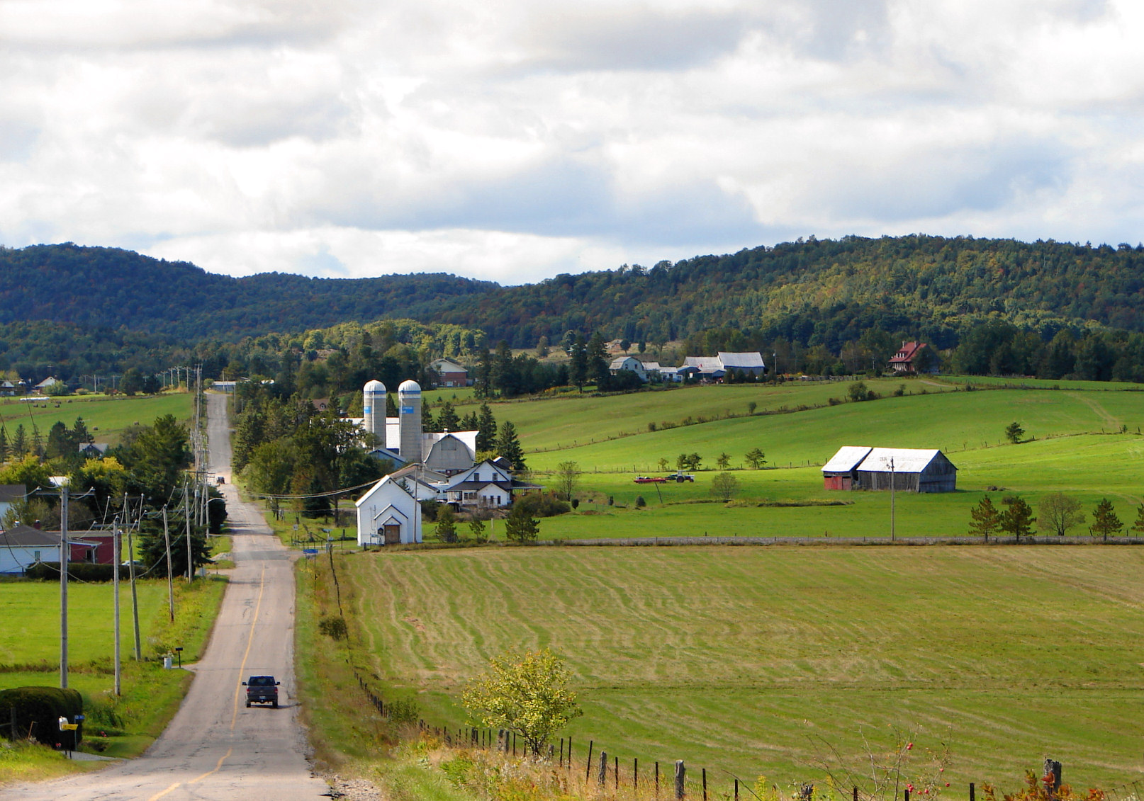 View of the Harrington Valley in the Harrington Township, Quebec, Canada.